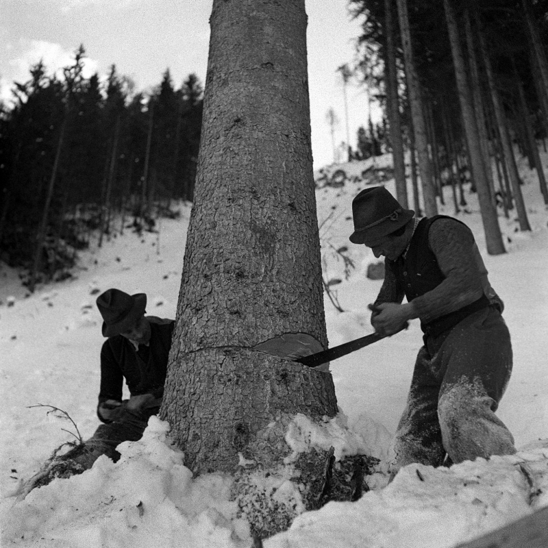 Lumberjacks sawing a tree trunk; Stockenboi, Carinthia